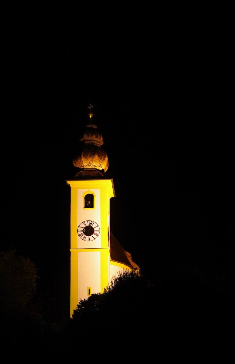 Pankrazkirche in 83435 Bad Reichenhall bei NachtThis is a photograph of an architectural monument.